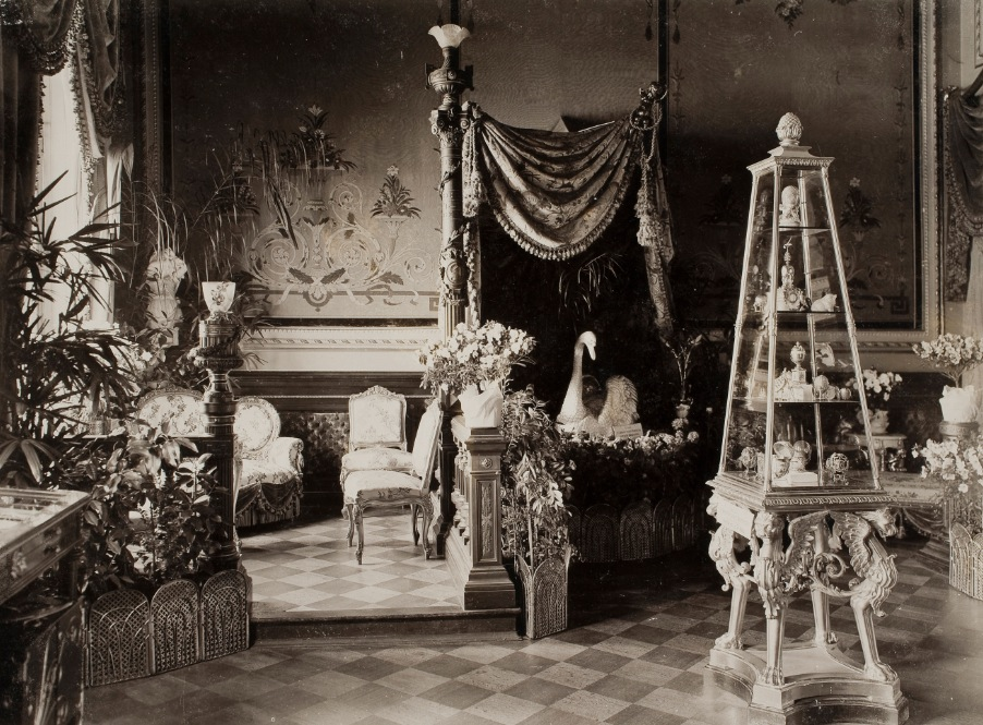 Von Dervis Mansion Exhibition Of The Russian Imperial Family's Faberge Collection In St. Petersburg, 1902